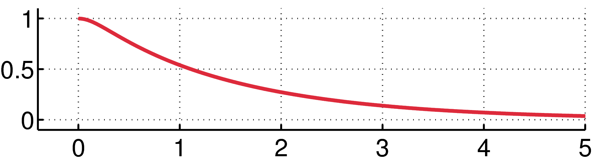 Illustration of Syntractrix